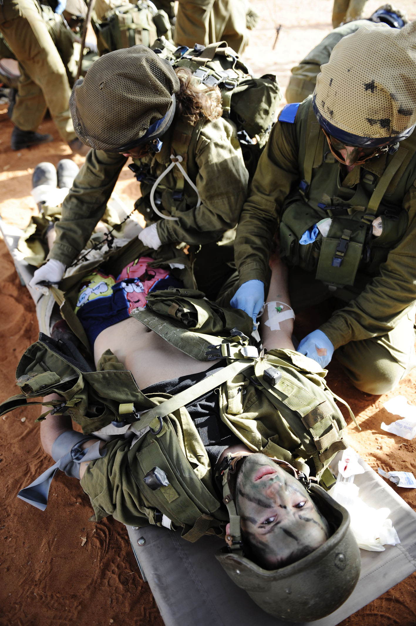 October 27, 2010. The Israeli Medical Corps held a final exercise for the largest field doctors course in the history of the IDF. As many as fifty new doctors will finish the military medical course next week and will be assigned to various IDF units on land, sea or air. Those finishing the course will be dispatched to individuals battalions, such that a doctor will be staffed to every battalion in the IDF. Brig. Gen. Dr. Nachman Ash, Commander of the Medical Corps, tested the IDF doctors-to-be and congratulated the participants: “These are doctors full of motivation, with a sparkle in their eyes. They are ready and willing to do their work. There is no doubt that from now on, with the manning of the positions in all field units, the medical response for soldiers will correspond to the need." חיל הרפואה קיים אתמול (ד') תרגיל מסכם לקורס הרופאים הגדול ביותר בתולדות צה"ל. כ50 רופאים חדשים יסיימו בשבוע הבא את קורס הרופאים הצבאי וישובצו ביחידות צה"ל השונות, באוויר,בים וביבשה. צה"ל סוגר את פער הרופאים הגדול שהורגש בגדודים, ומעכשיו יהיה רופא לכל גדוד בצה"ל. קצין הרפואה הראשי, תא"ל ד"ר נחמן אש, בחן את הרופאים לעתיד של צה"ל וברך את המשתתפים: "אלה רופאים מלאי מוטיבציה וברק בעיניים, הם נכונים ורוצים לעשות את עבודתם. אין ספק שמעתה, עם איוש כלל יחידות השדה ברופאים, גם המענה לחיילים יהיה בהתאם".